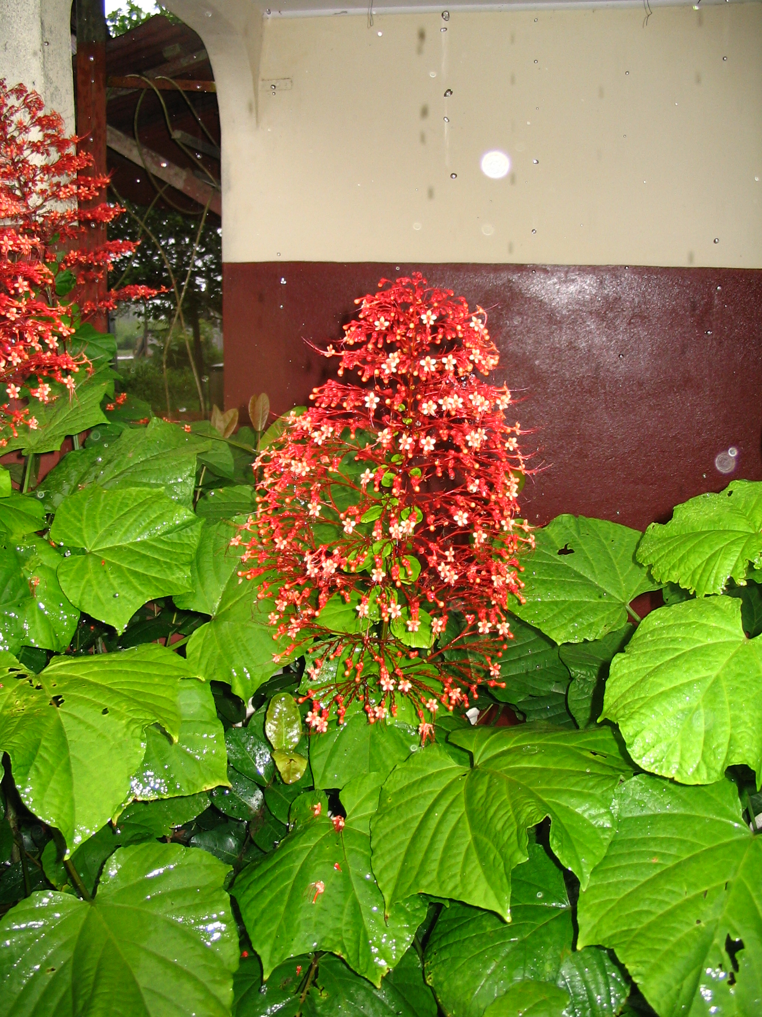 Photo of Clerodendrum paniculatum taken in the village of Kaw, Kaw Swamps, French Guiana (Amazonia) on 22 May 2005. Commonly called couronne de mariée (Bride's Crown) in French Guiana and pagode (Pagoda) in the French Antilles.